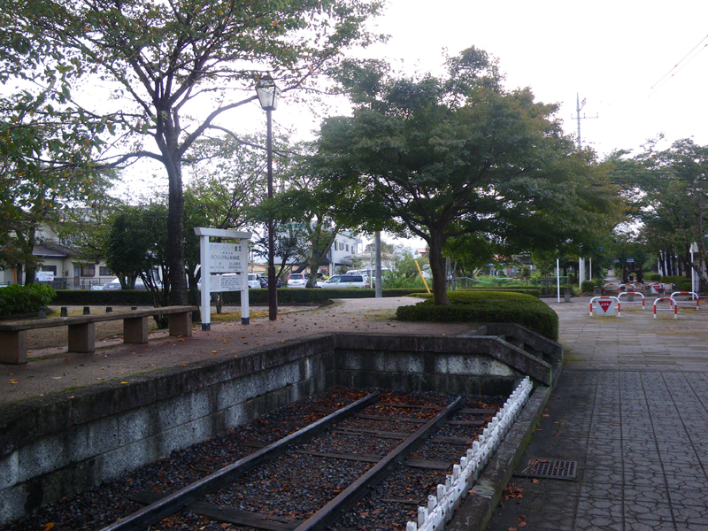 A vacant lot of Nogijinjamae Station(Disused train stations), closed in 1968. Nasushiobara, Tochigi, Japan.